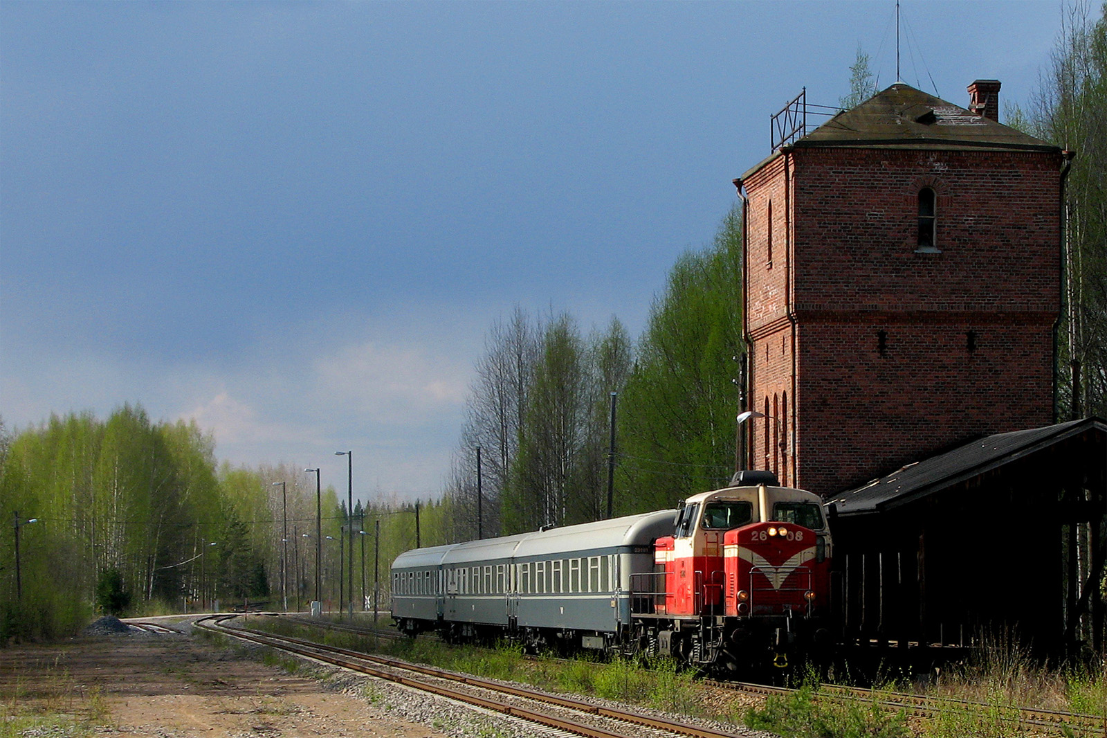 VR Class Dv12 (no. 2608) pulling a passenger train at Huutokoski railway station in Joroinen, Finland.